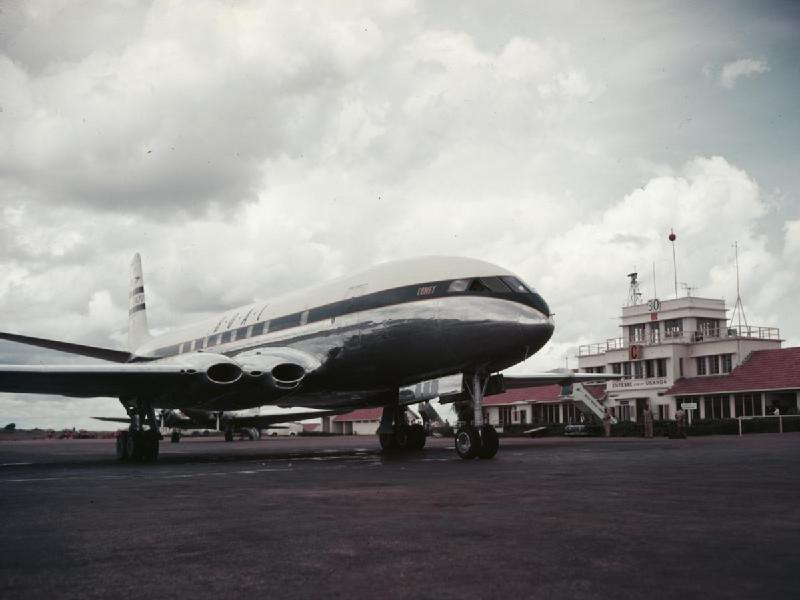 A BOAC de Havilland Comet jet airliner, en route to Johannesburg from London, breaks its journey at Entebbe Airport, Uganda. 1952 ATP 18376C.